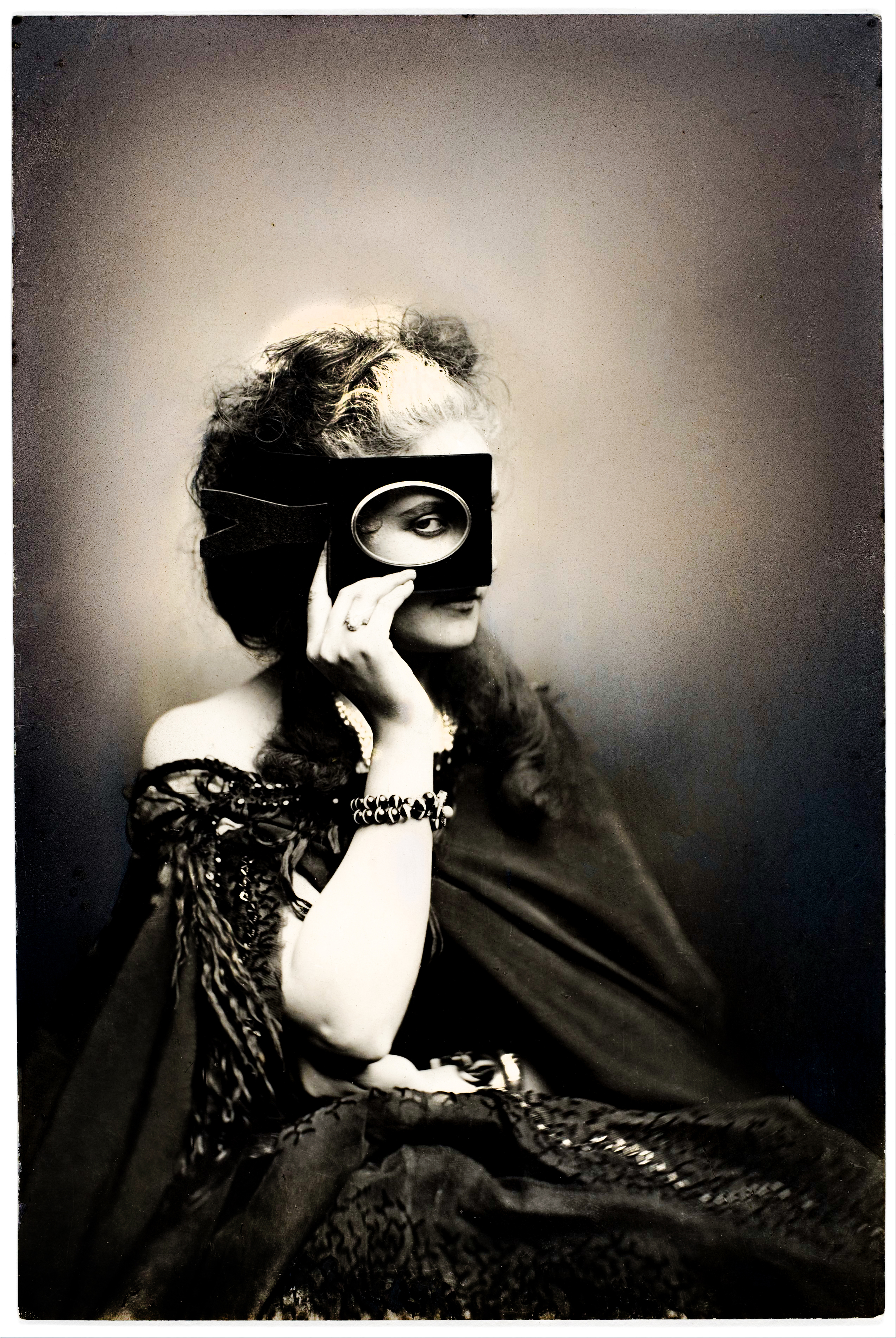 "Comtesse de Castiglione - Scherzo di Follia" by Pierre-Louis Pierson (1822-1913)